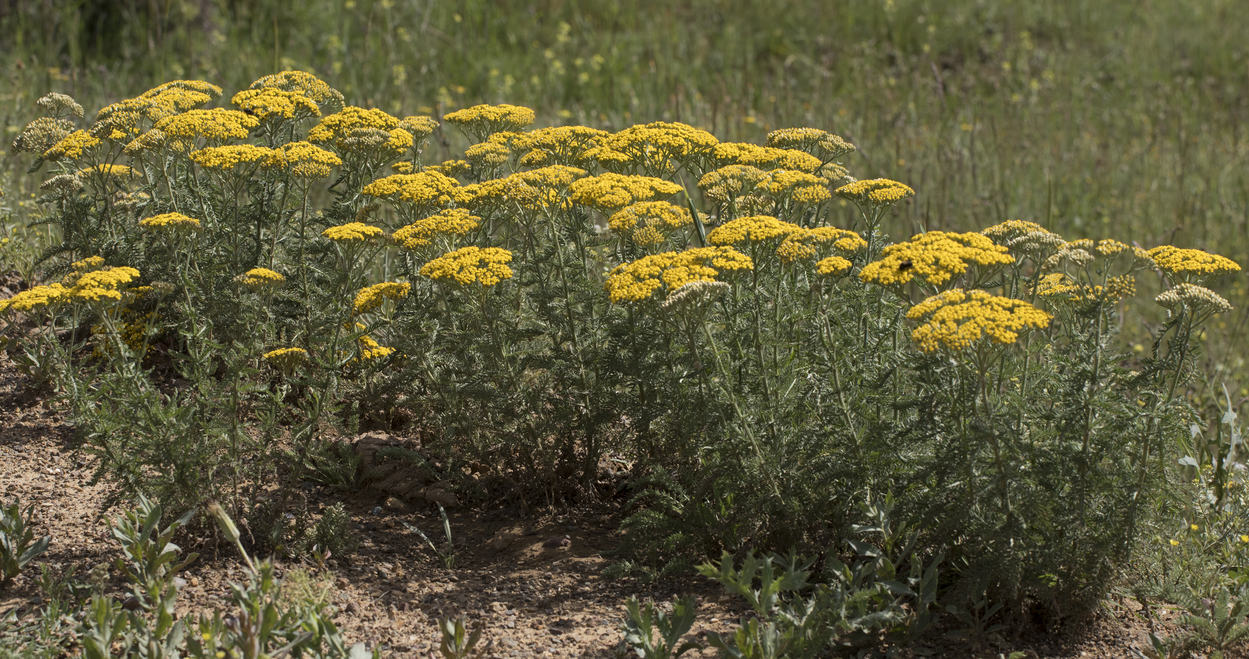 Achillea arabica in Obrukbaşı, Saimbeyli - Adana, Turkey.